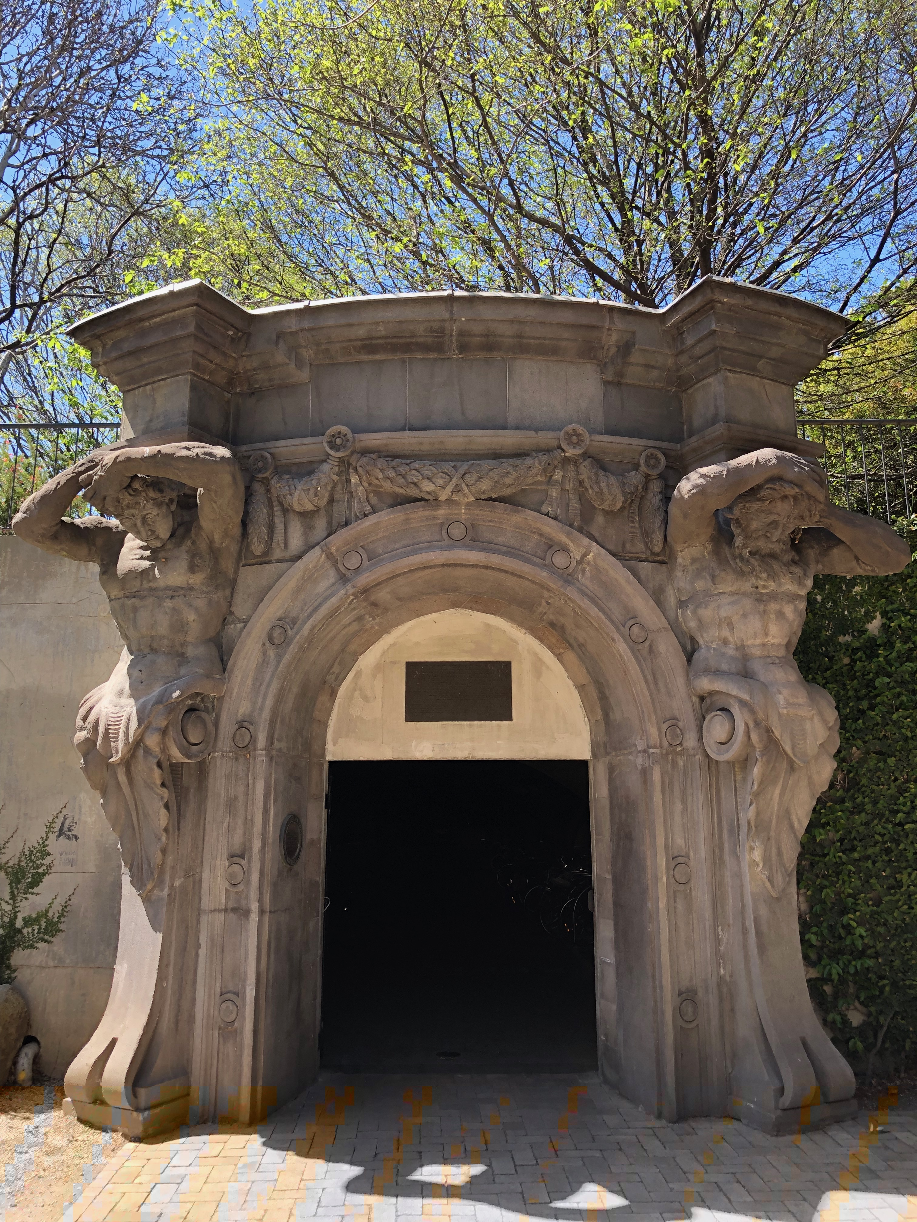 Pedestrian entrance to the South Lawn car park on the University of Melbourne Parkville campus. The elaborate porch was originally part of the entrance to the Colonial Bank of Australasia headquarters building in the Melbourne city centre.